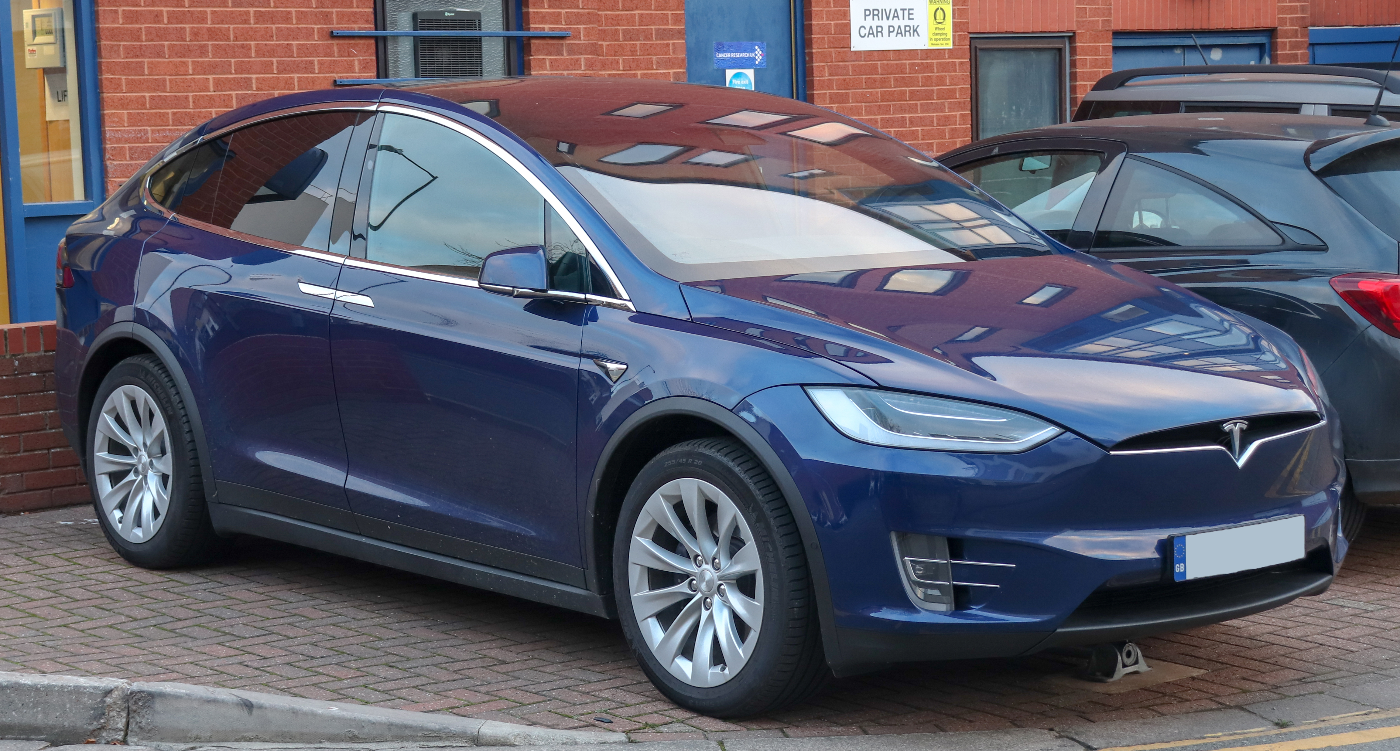 2018 Tesla Model X 100D Taken in Leamington Spa